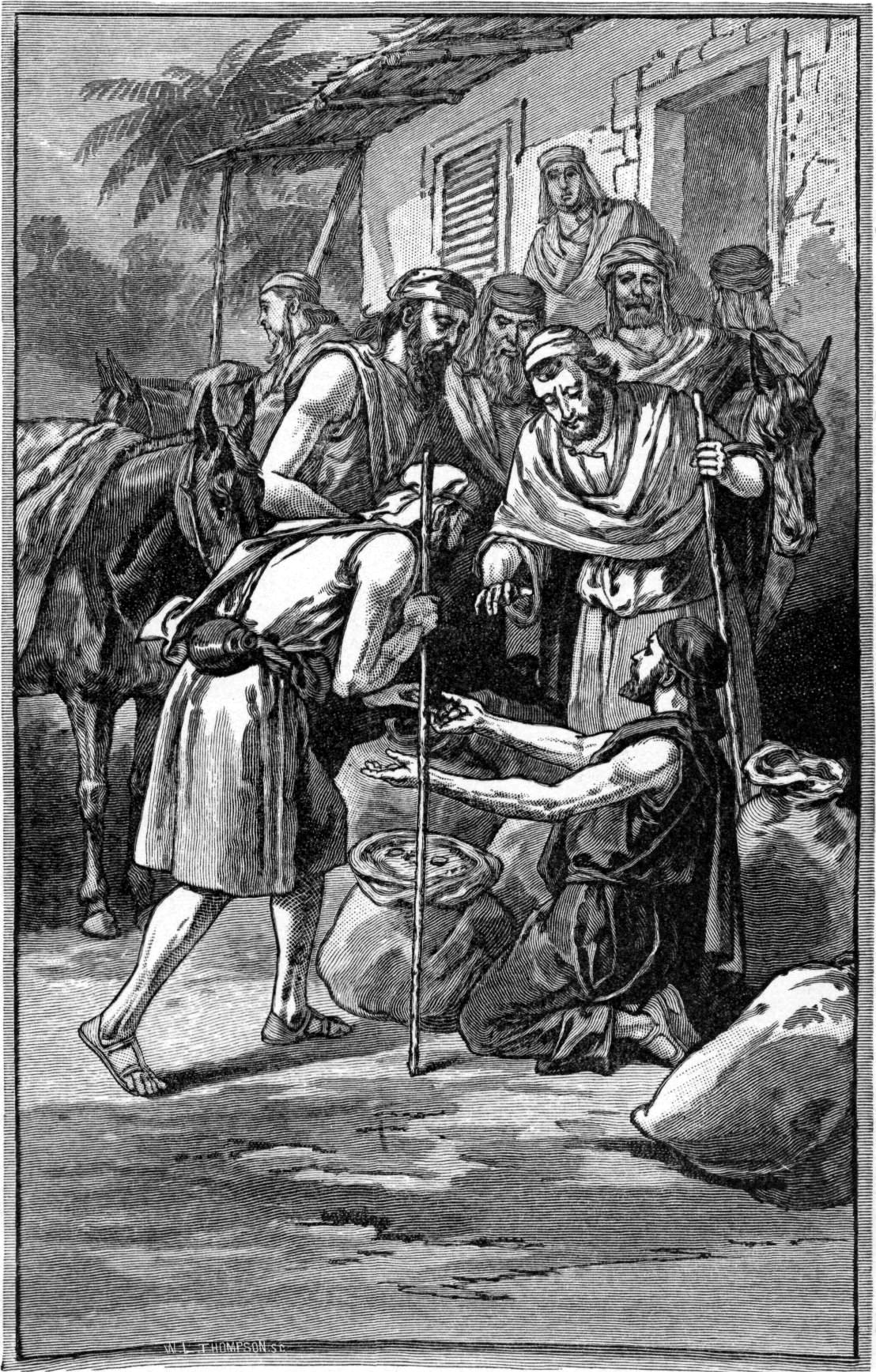 Joseph's Brothers Found the Money. Caption: "Joseph's brothers have been to the land of Egypt to buy corn, because there is no corn for them to eat in the land of Canaan where they live. There is a famine in the land of Canaan, and the corn will not grow there. But there is plenty of corn in the land of Egypt where Joseph lives. So they took their asses and started to go to that land to buy some. And they saw Joseph in Egypt and bought corn of him, but it had been so long since they had seen him before, and now he was so rich and great, that they did not know him or think it was their brother. But Joseph knew them, though he did not tell them so. And when they paid their money for the corn he told his servants to put it back in their bags. And when Joseph's brothers stopped and opened their bags to feed their asses, they found the money. You see how surprised they look, for they cannot understand it." Illustration from the 1897 Bible Pictures and What They Teach Us: Containing 400 Illustrations from the Old and New Testaments: With brief descriptions by Charles Foster